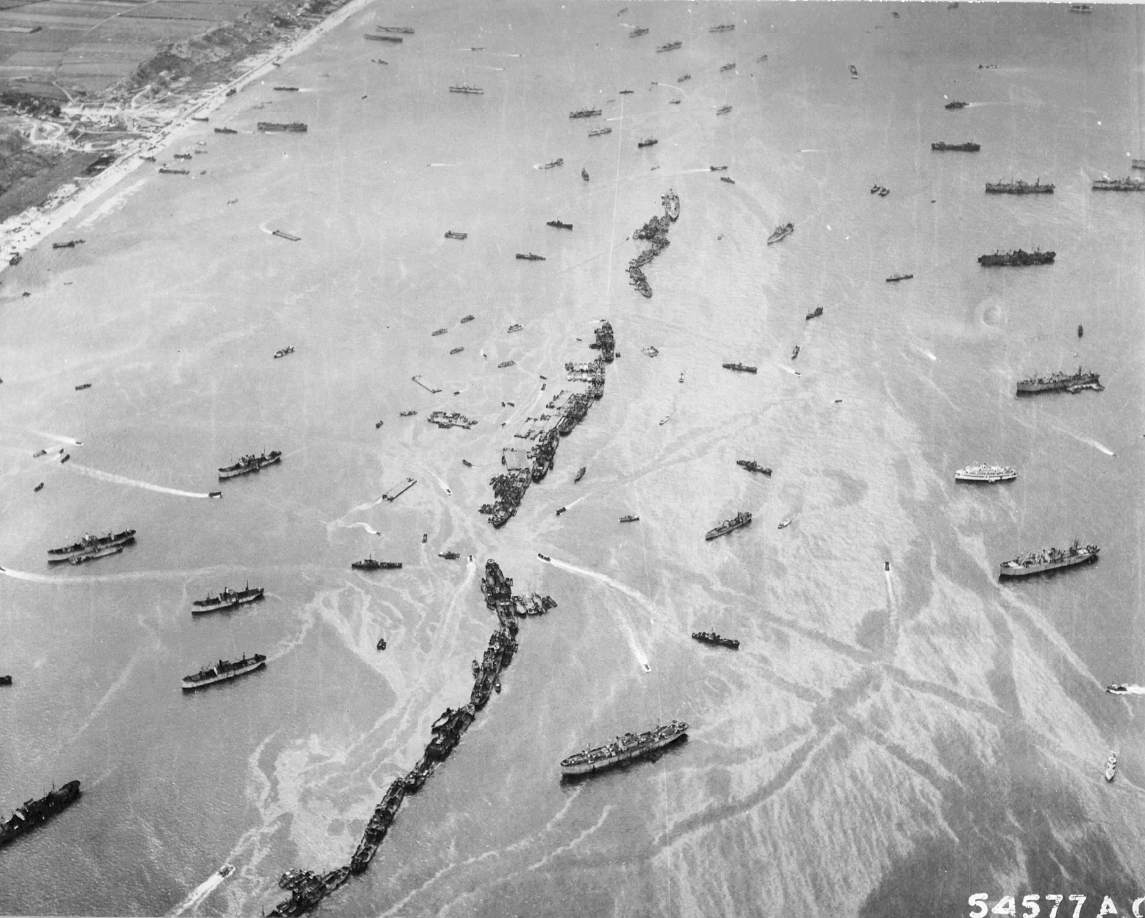 "Omaha Beach"American Liberty ships were deliberately scuttled off the beaches to provide makeshift breakwaters during the early days of the invasion somewhere in France. This scene shows 13 Liberty ships formed into a protecting screen for the vessels unloading on the beach.